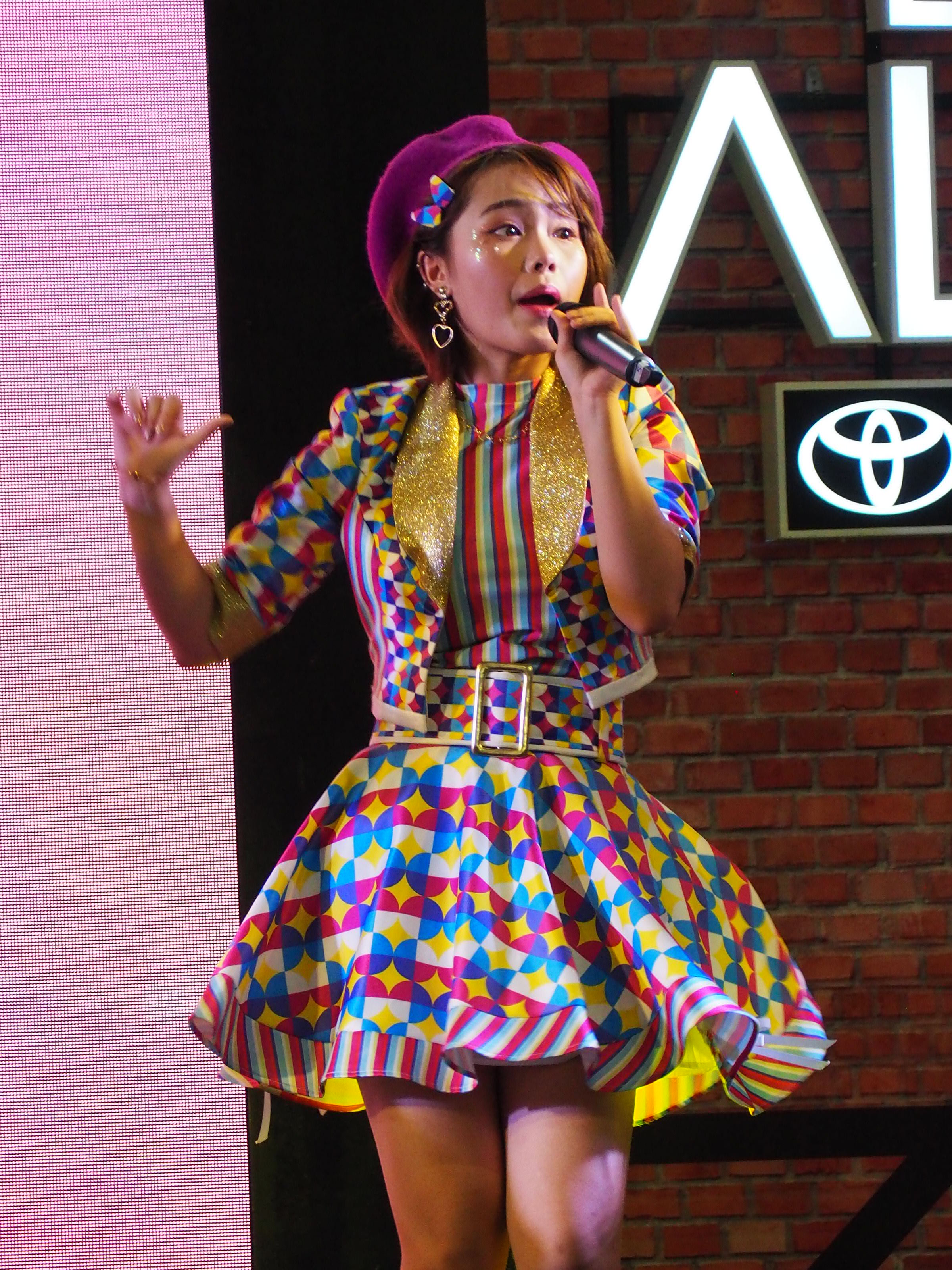 Music BNK48 (Praewa Suthamphong) @Toyota Fun Space Best For You in Central Plaza Udon Thani, Udon Thani, Thailand.